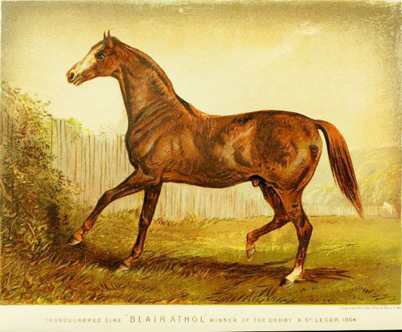 Painting of 1864 Epsom Derby winner. Unknown contemporary artist.